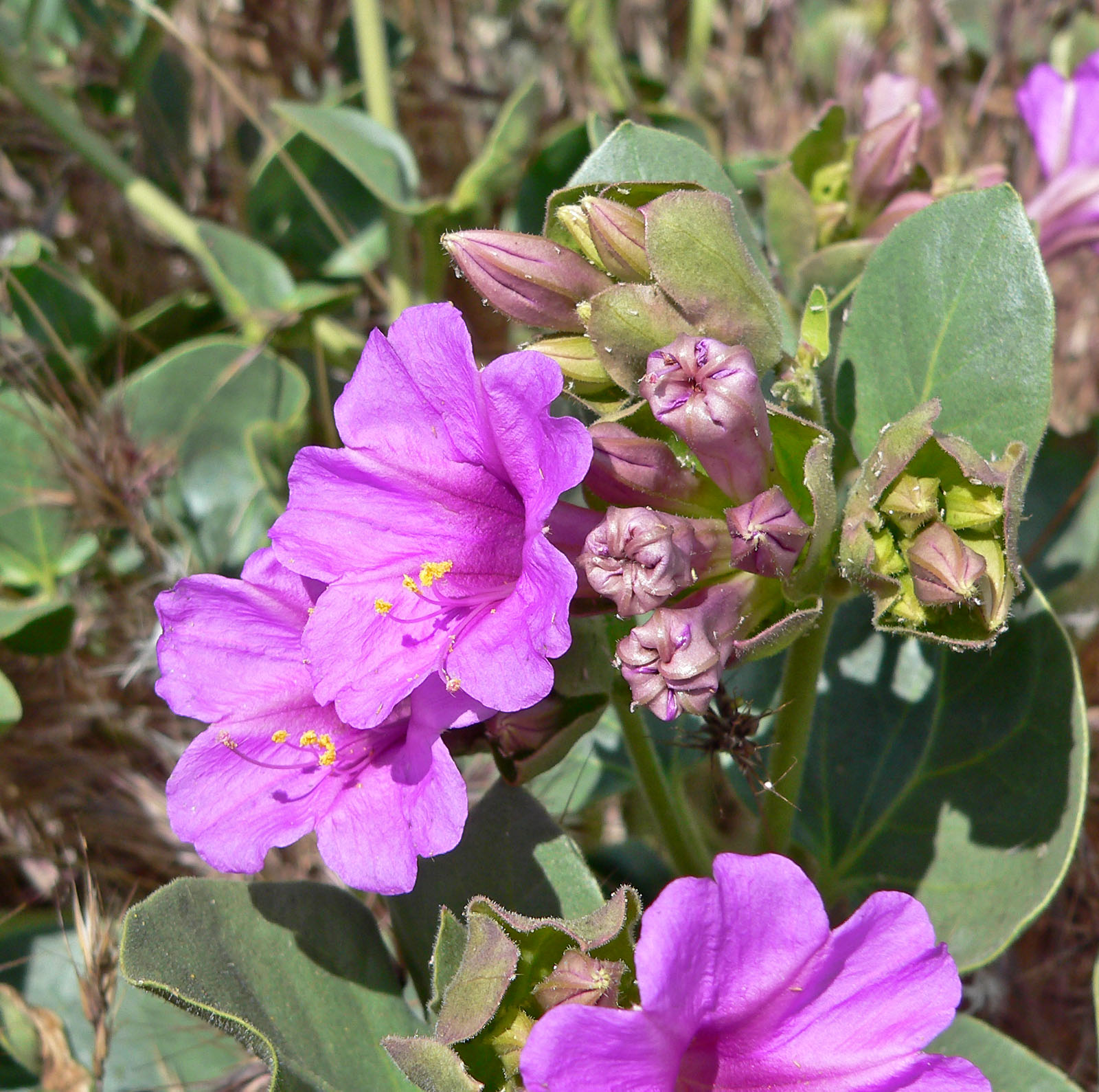 Photo of Mirabilis multiflora (giant four o'clock) in Red Rock Canyon, Nevada